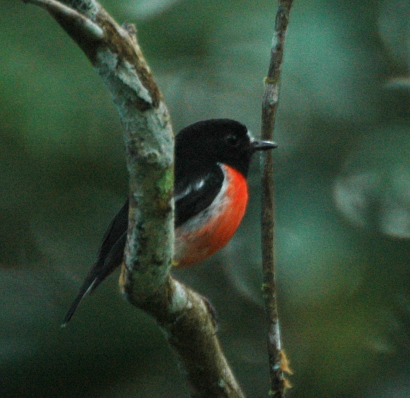 Pacific Robin (Petroica multicolor) Colo-I-Suva Park, Viti Levu, Fiji Isles